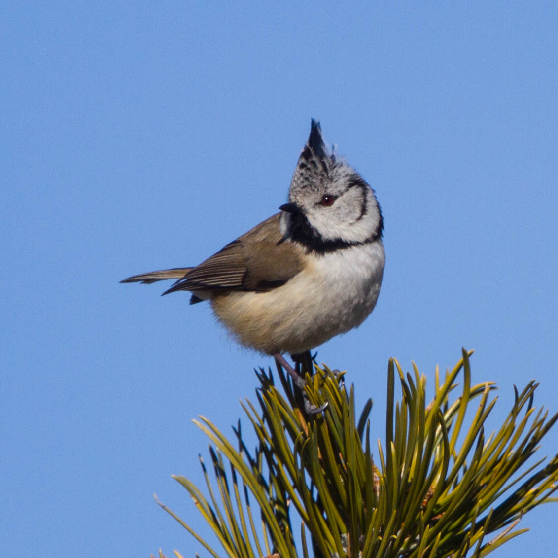 Crested Tit Lophophanes cristatus, Mont Ventoux, southern France